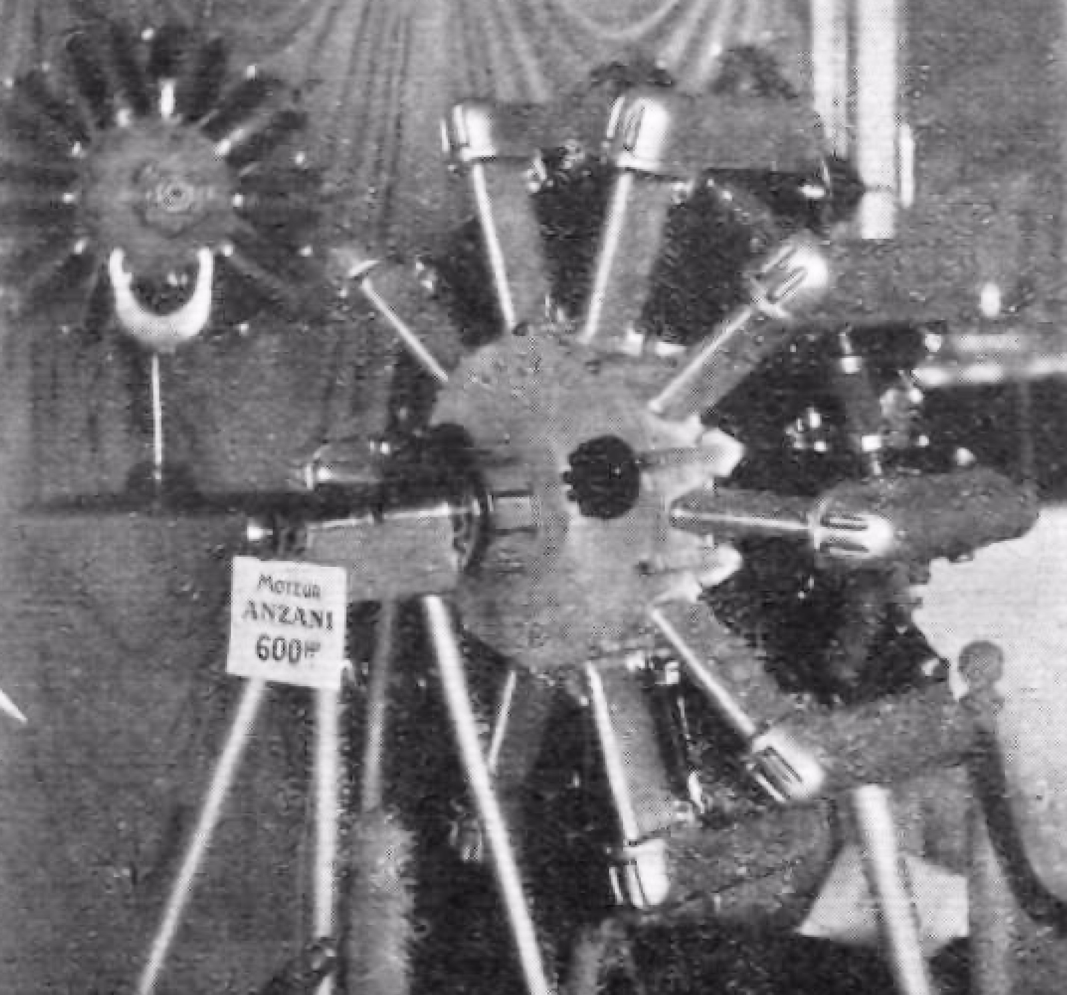 A 600hp Anzani 20 cylinder water-cooled in-line radial engine with 10 banks of two in-line cylinders